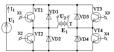 Derevenets_Мост схема